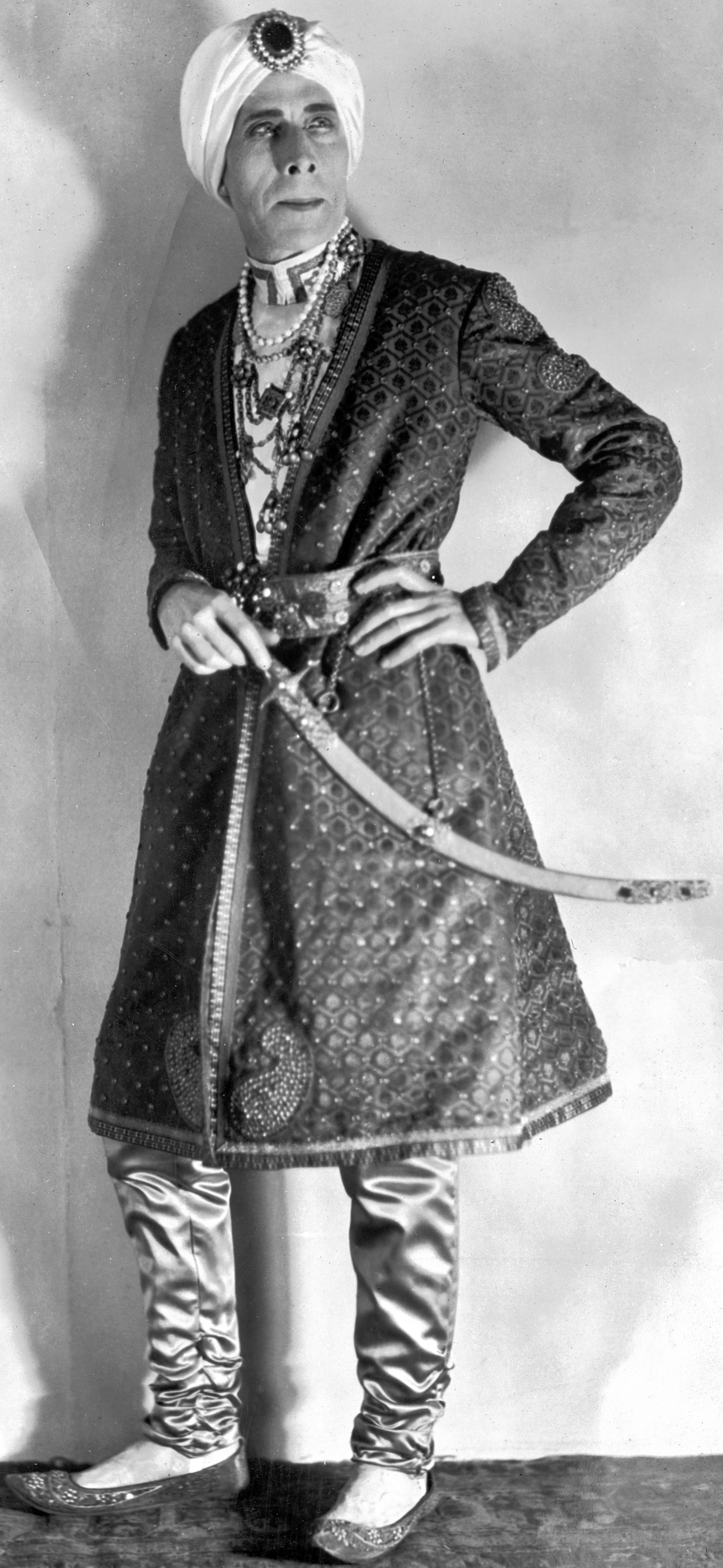 English actor George Arliss (1868-1946) in sultan costume